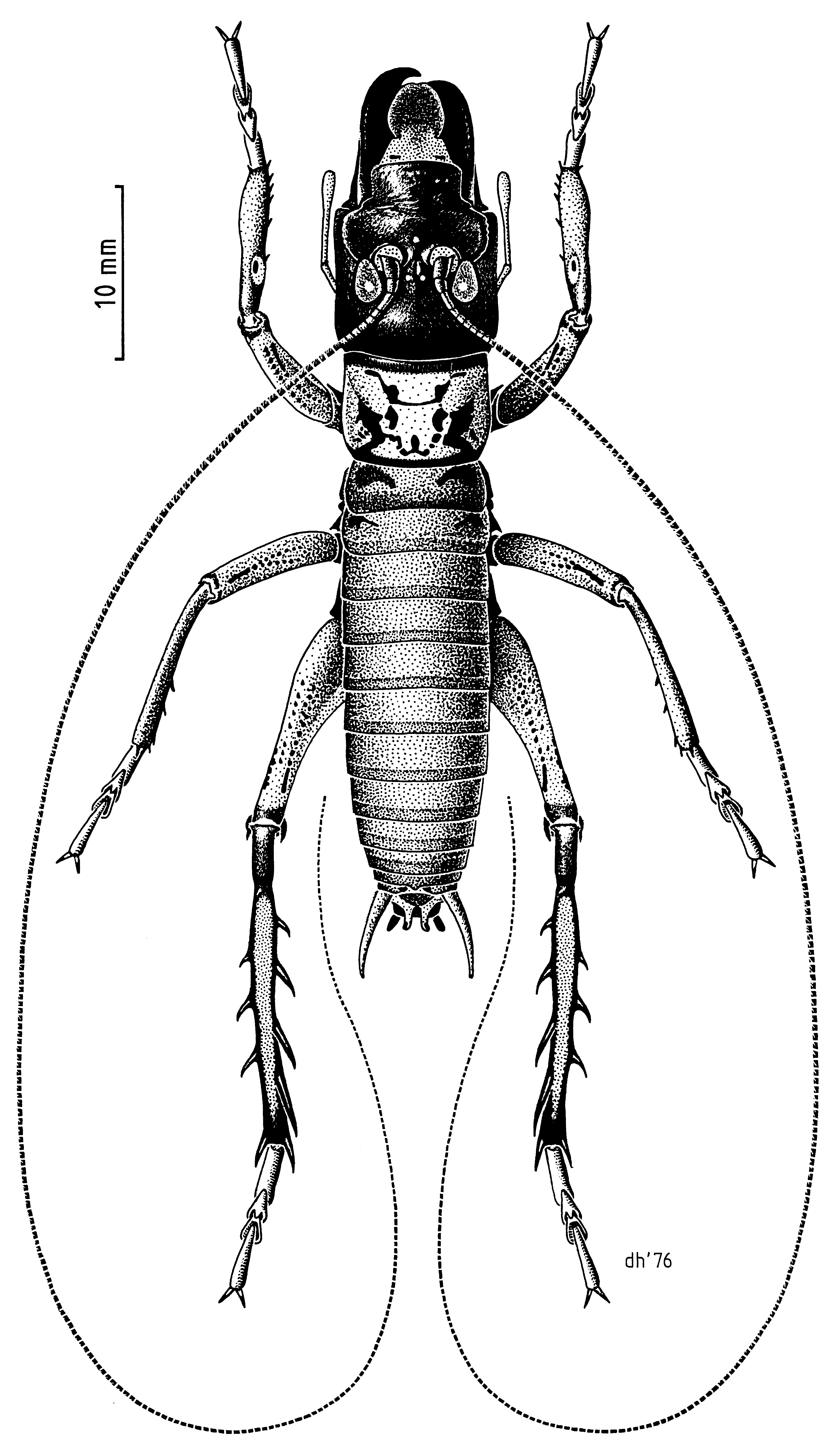 (Orthoptera: Anostostomidae) Hemipteradeina thoracica male illustrated by Des Helmore.